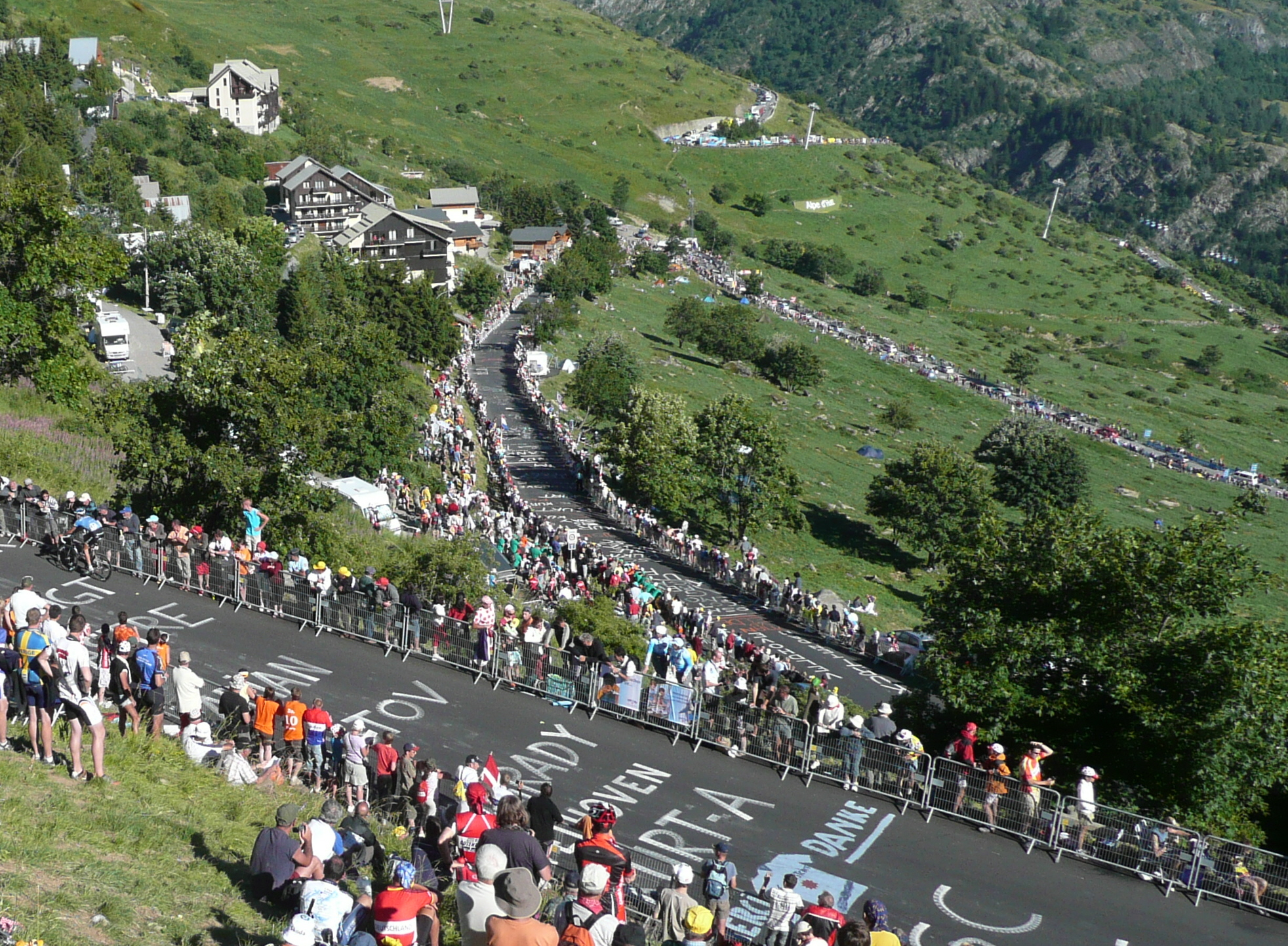 Spectators at Tour de France 2008 stage up to Alpe d'Huez